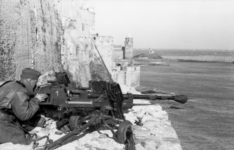 Title: Südfrankreich, schwere Panzerbüchse 41 Additional information: Юг Франции. Солдат у орудия 2,8 cm schwere Panzerbüchse 41 на позиции над гаванью. Factual corrections and alternative descriptions are encouraged separately from the original description. Additionally errors can be reported at this page to inform the Bundesarchiv. Original historic description: Frankreich-Süd.- Soldat an schwerer Panzerbüchse 41 in Stellung oberhalb eines Hafens; PK 696